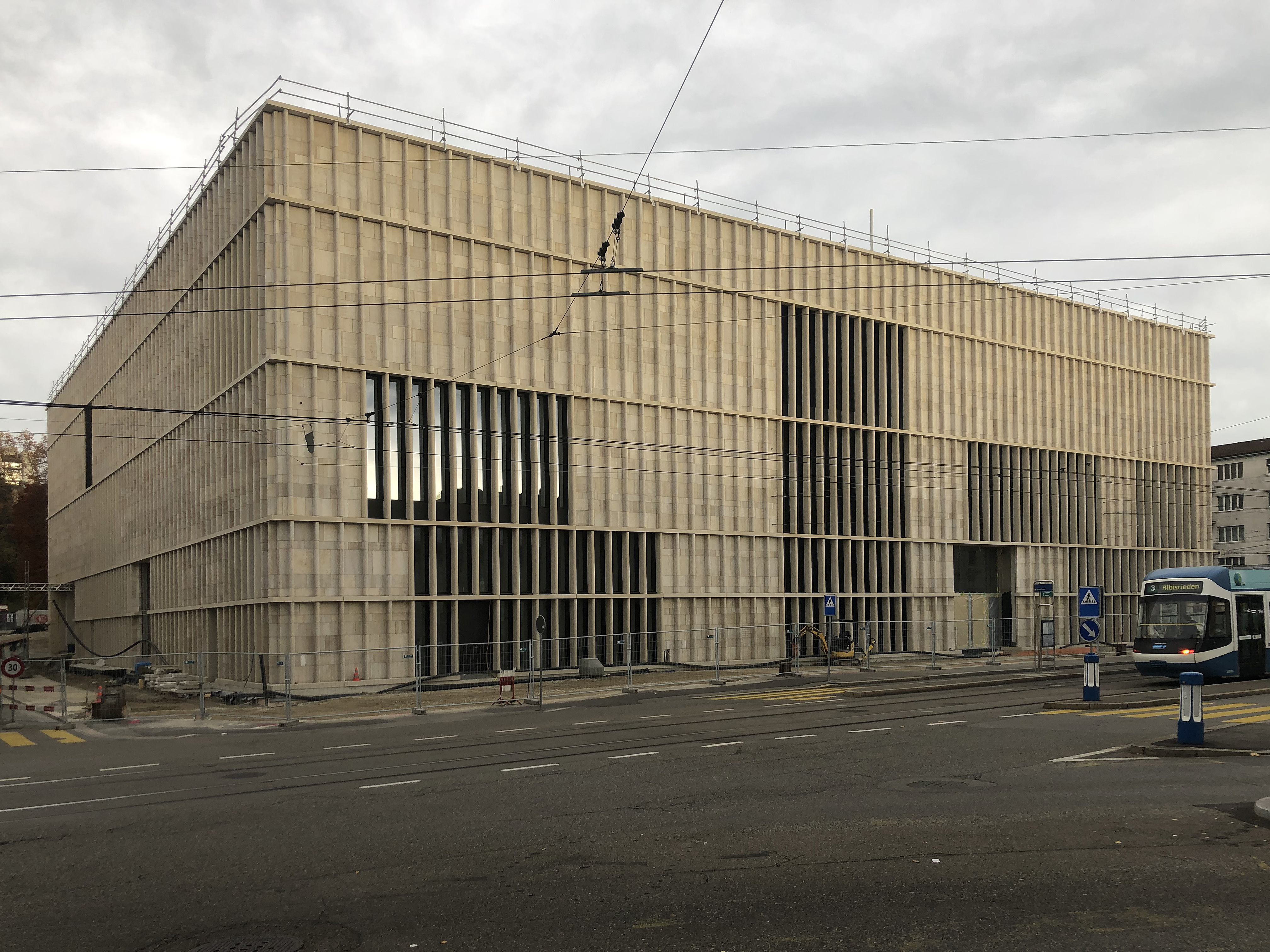 The new building of the Zurich art gallery (Zürich Kunsthaus) shortly before completion in November 2019